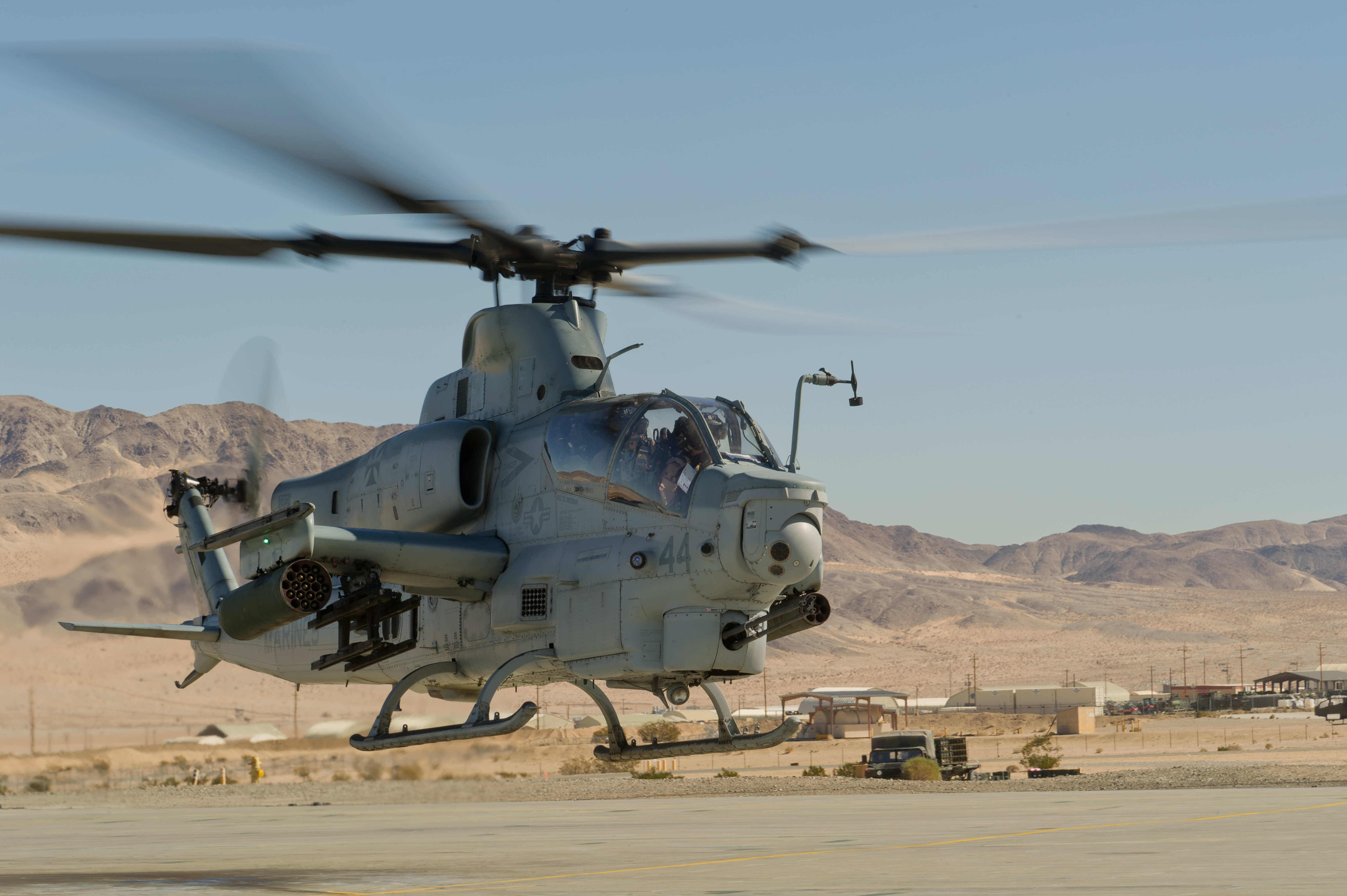 A U.S. Marine Corps AH-1Z Viper helicopter from Marine Light Attack Helicopter Squadron 169, Vipers, Camp Pendleton, Calif., hovers on the flight line during Integrated Training Exercise 2-15 at Marine Corps Air Ground Combat Center Twentynine Palms (MCAGCC), Calif., Feb. 4, 2015. MCAGCC conducts relevant live-fire combined arms training, urban operations, and Joint/Coalition level integration training that promotes operational forces readiness. (U.S. Air Force photo by Tech. Sgt. Matthew Smith/Released)